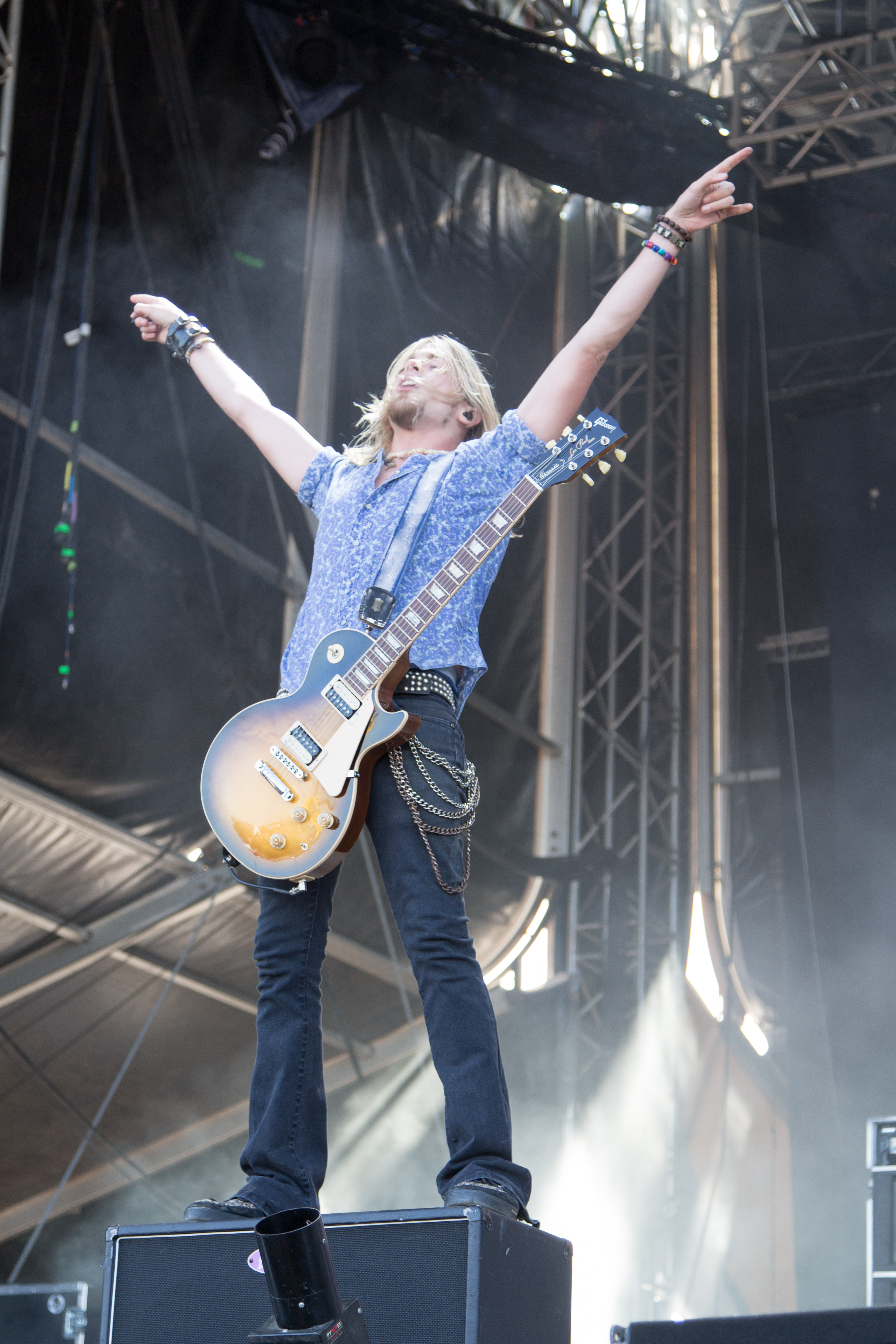 Ben Wells from Black Stone Cherry at Nova Rock 2014